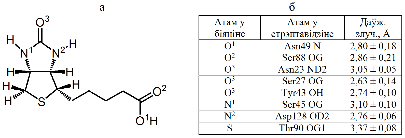 H-bonds' length between biotin and streptavidin atoms in binding center